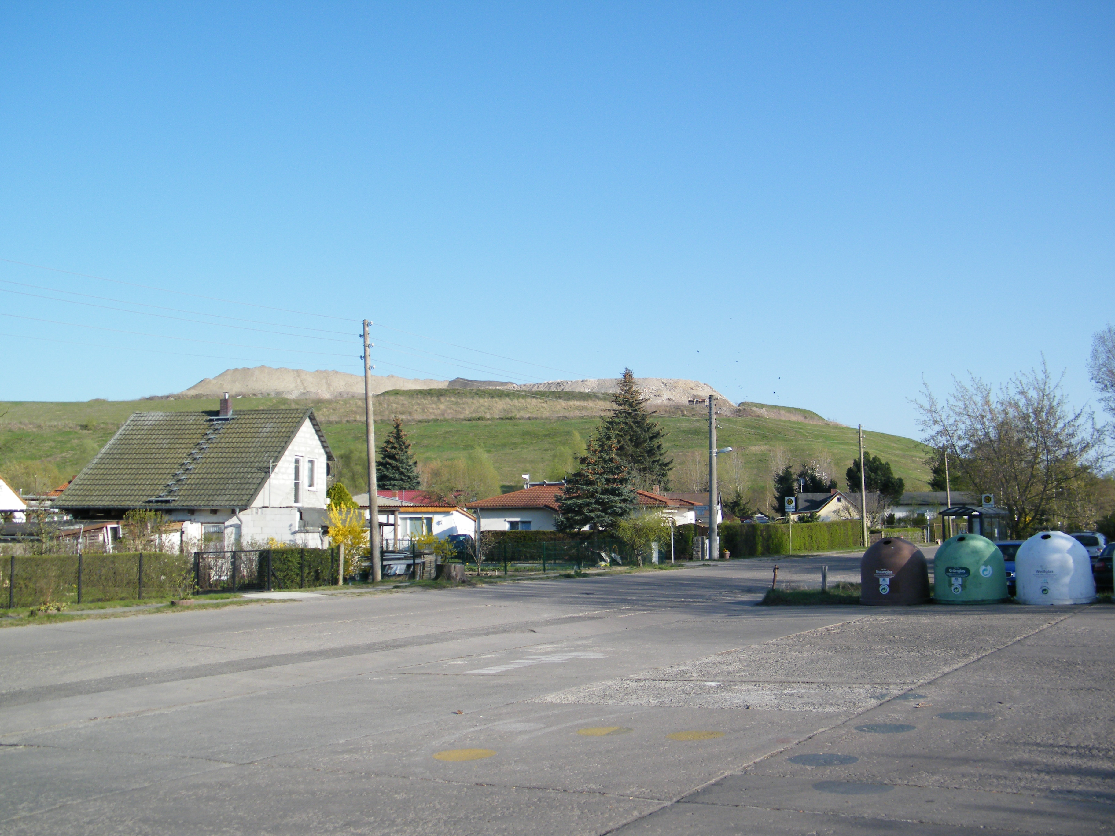 Siedlung Arkenberge, in the North of Berlin.